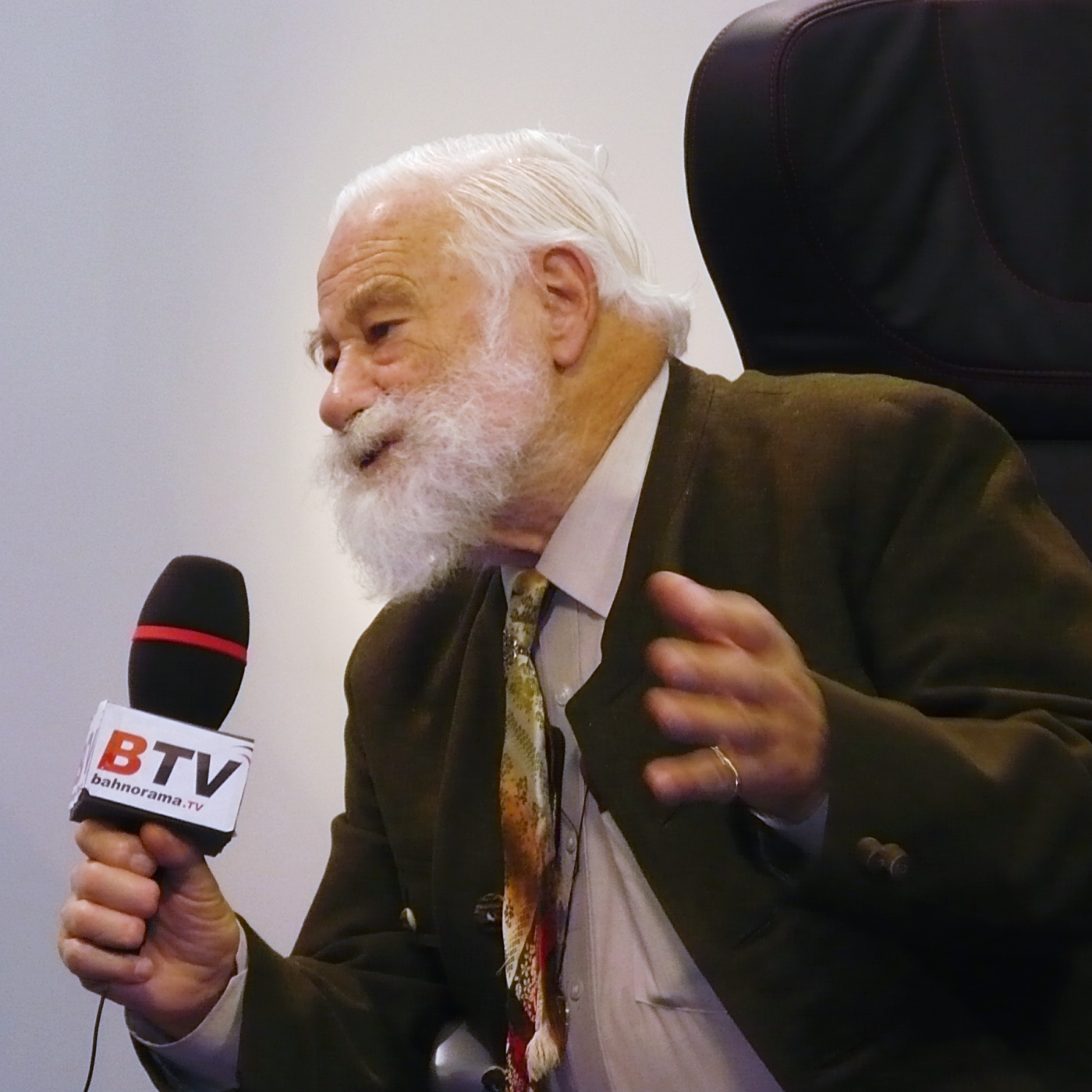 Bob Symes taking an interview at the "Modellbau 2008" in Vienna.